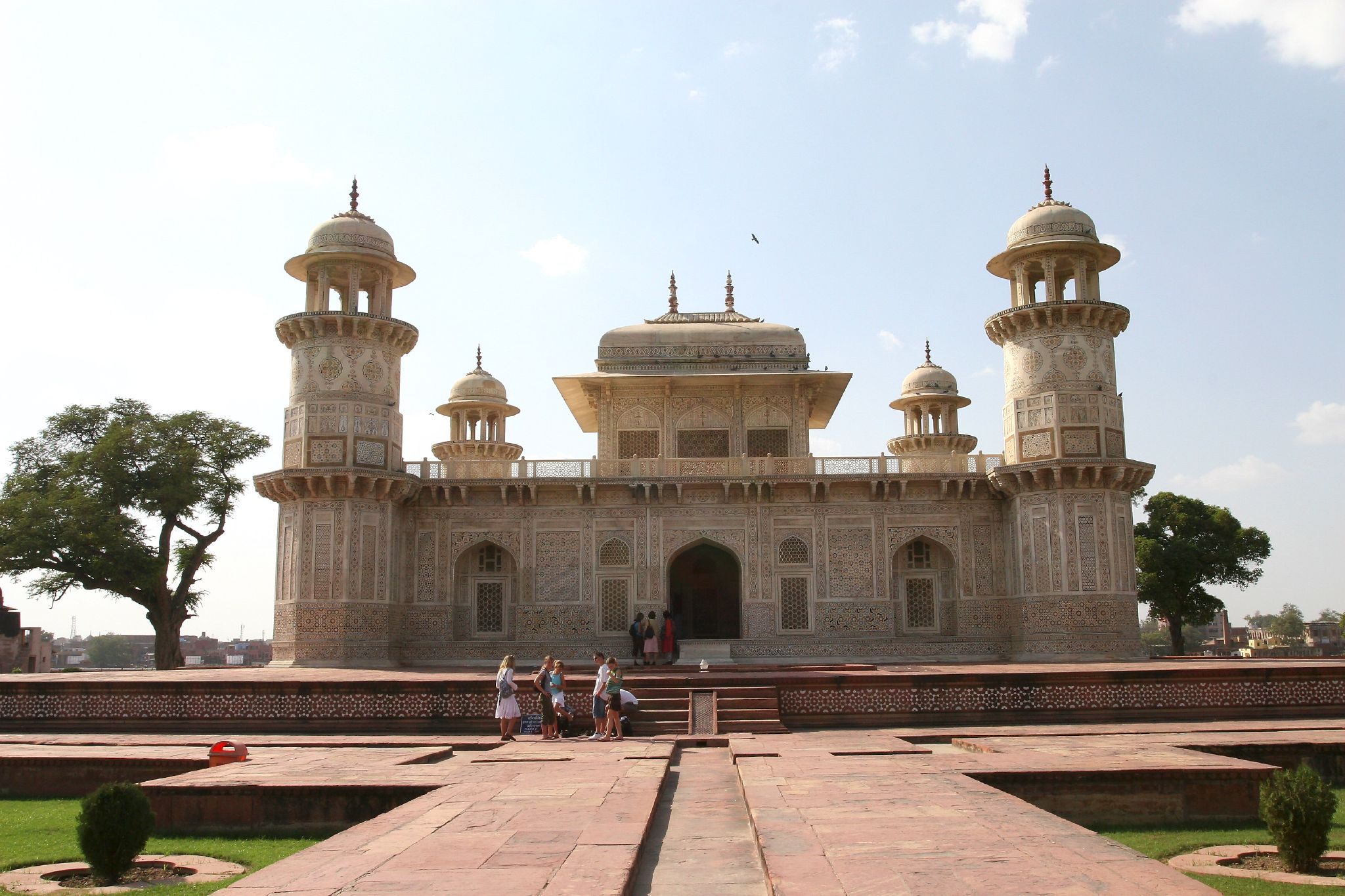 Itimad-ud-Daula's Tomb at Agra (Uttar Pradesh, India) Beautiful tomb built in 1622 for Itimad-ud-Daulah, lord treasurer of the Mughal empire.